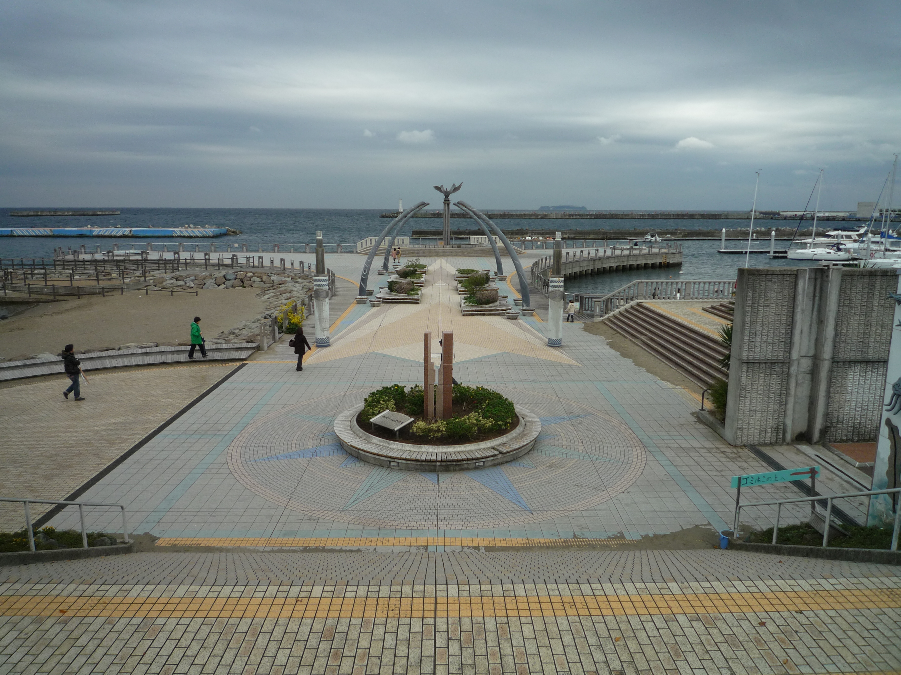 Nagisacho, Atami, Shizuoka Prefecture 413-0014, Japan